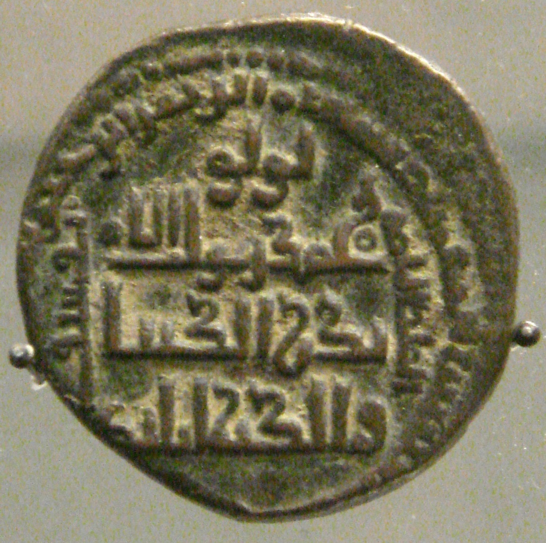 Coin of Badr_al_Din_Lulu_Mossul_1210_1259